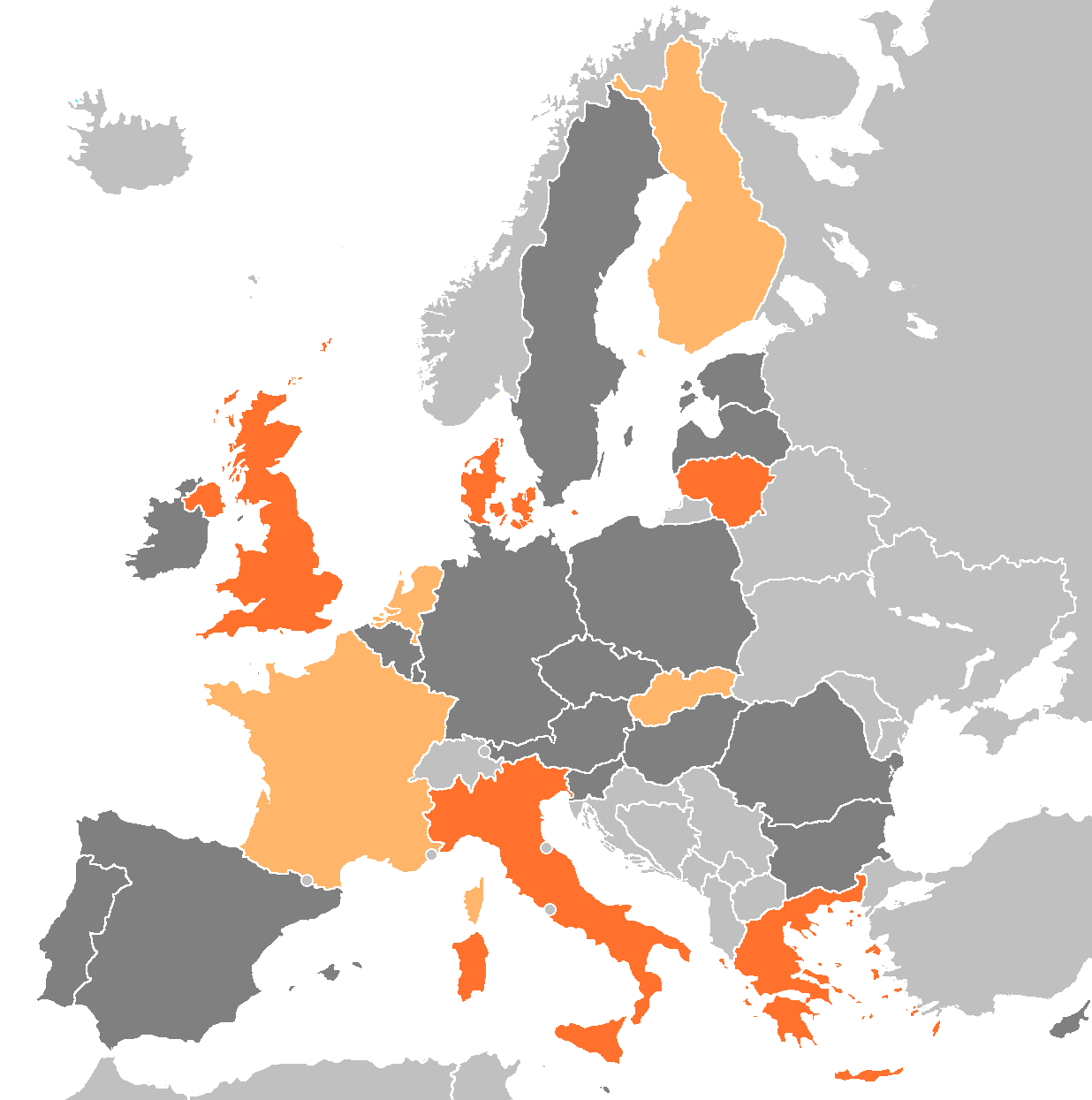 Europe of Freedom and Democracy (EFD) Group in the European Parliament, as of 01 Januari 2010. Orange: EU countries with more than one EFD MEP. Light orange: EU countries with one EFD MEP. Dark grey: EU countries without EFD MEPs. Light grey: Non-EU countries.